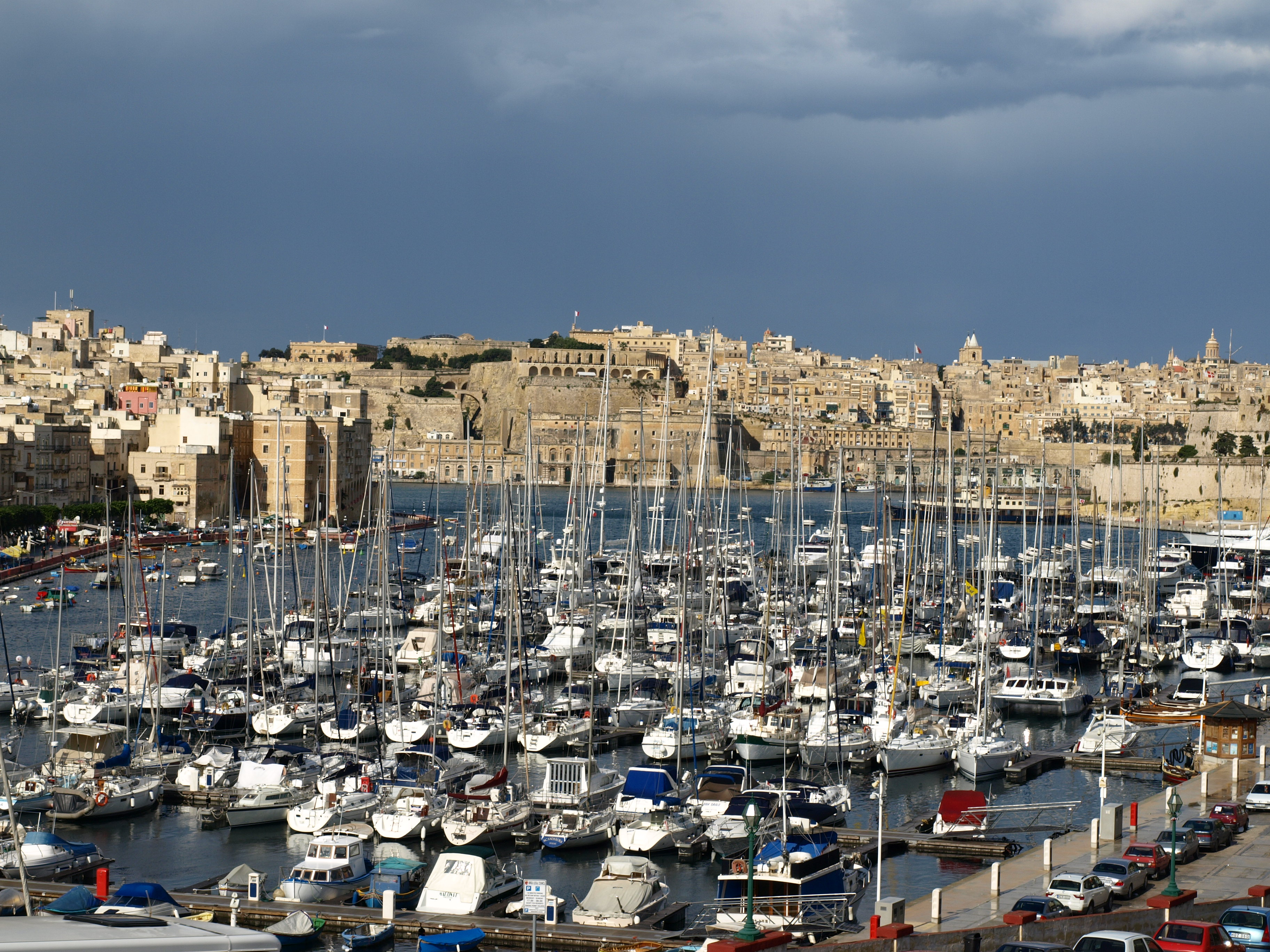 Cottonera Marina, Vittoriosa (Birgu), Malta. Valletta can be seen in the background.